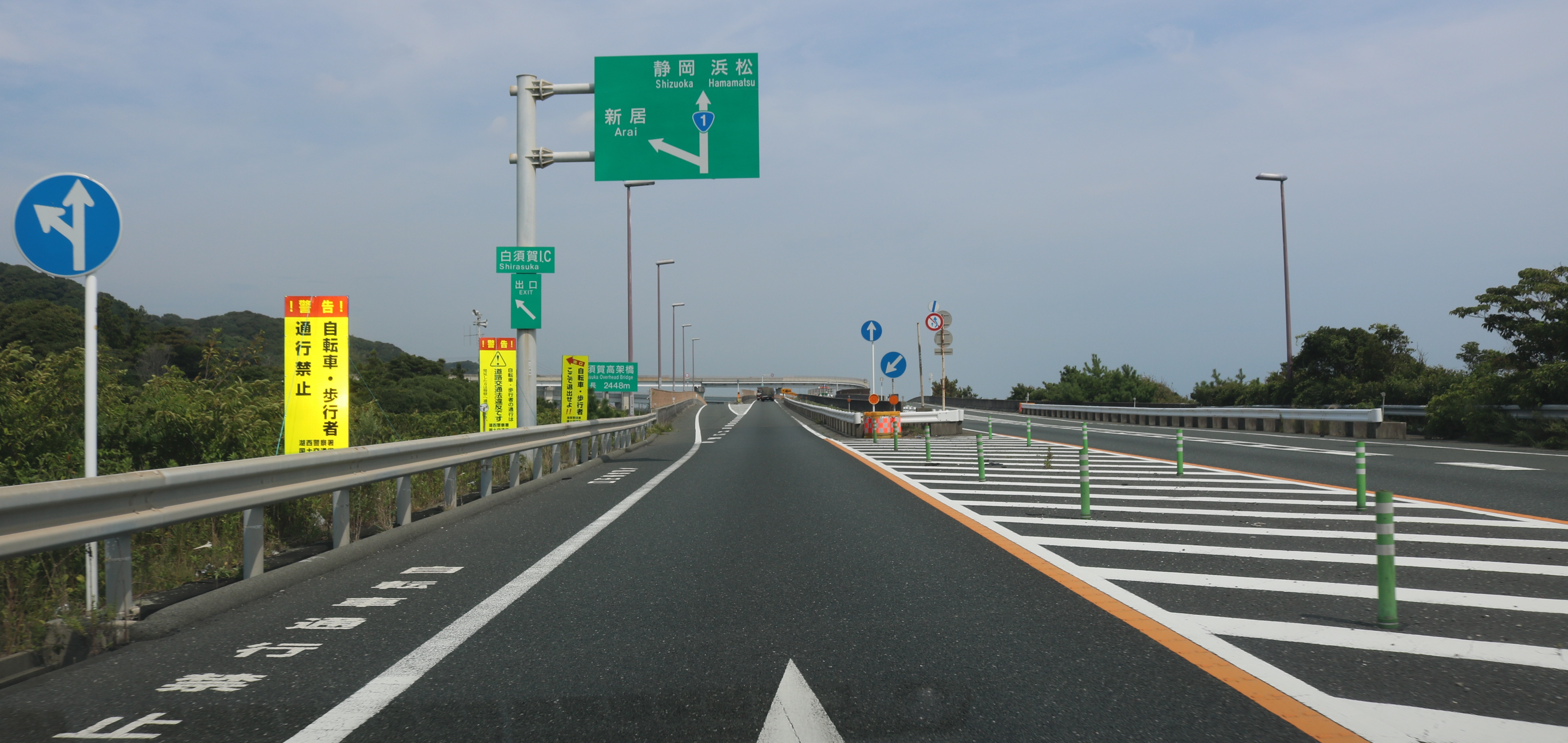 Shirasuka Interchange of Shiomi Bypass (Route 1) in Shirasuka, Kosai, Shizuoka Prefecture, Japan.